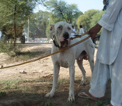 The Bully Kutta, a molosser type of dog is considered as the pride of Pakistan although this rare dog breed has actually originated in India. The Bully Kutta was developed in Thanjavur and Teruchi, the districts in southern India. "Kutta" means dog. The "bully" in the name was derived from the Hindi word bohli which means heavily wrinkled. The Bully Kutta name was purportedly given as the dog has a heavily wrinkled face. Bully Kutta is oftentimes referred to as Indian Mastiff and Sindh Mastiff as the breed originated on the area that part of the Sindh district. The Bully Kutta is believed to have descended from ancient breeds of molossers like the Alaunt and was developed during the Colonial rule of the British in India. The Bully Kutta is also known as South Asian Mastiff and Pakistani Bully Dog as this breed is most commonly found in areas that belong to Pakistan.